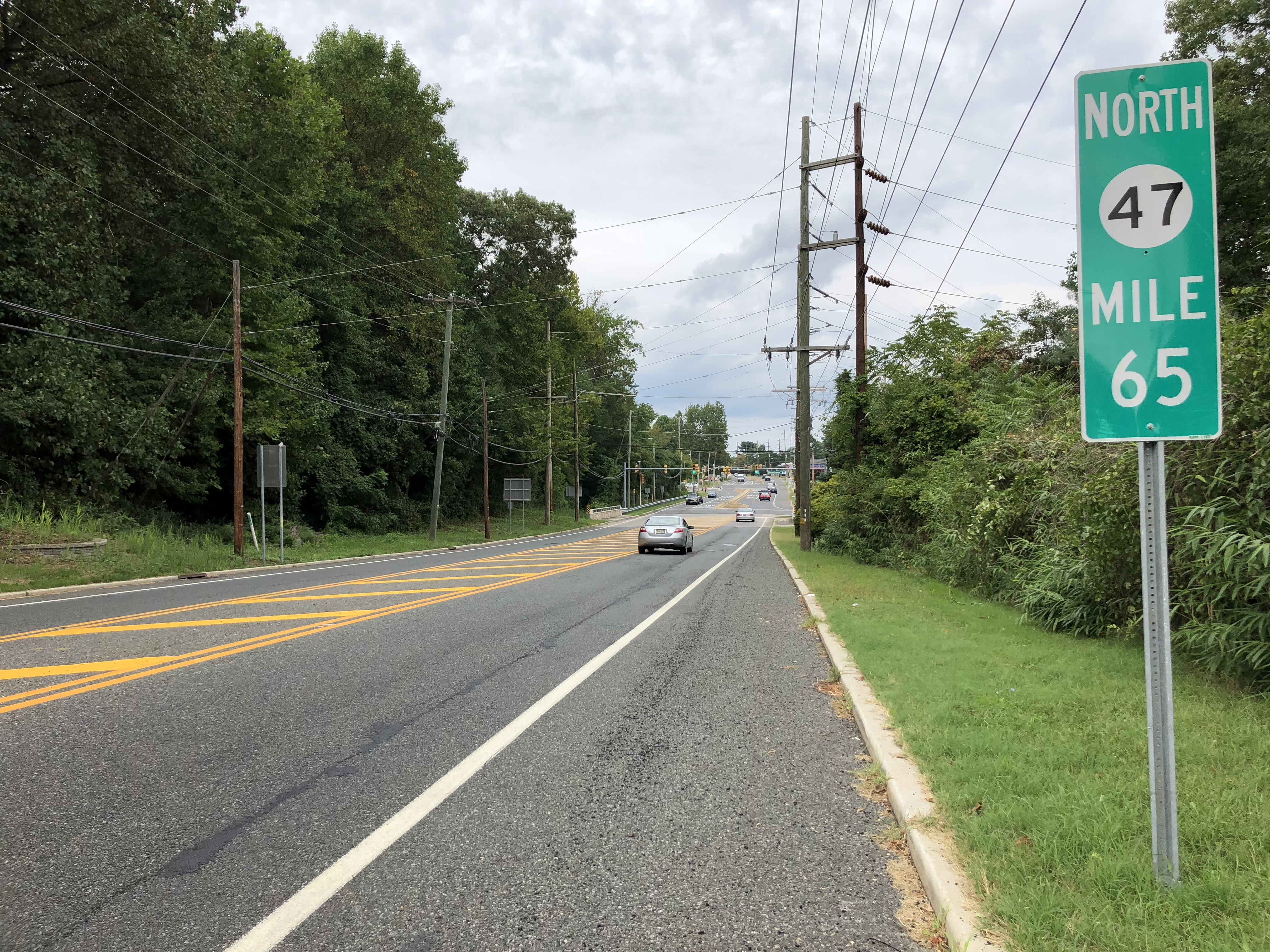 View north along New Jersey State Route 47 (Delsea Drive) at Pitman Avenue along the border of Pitman and Glassboro in Gloucester County, New Jersey